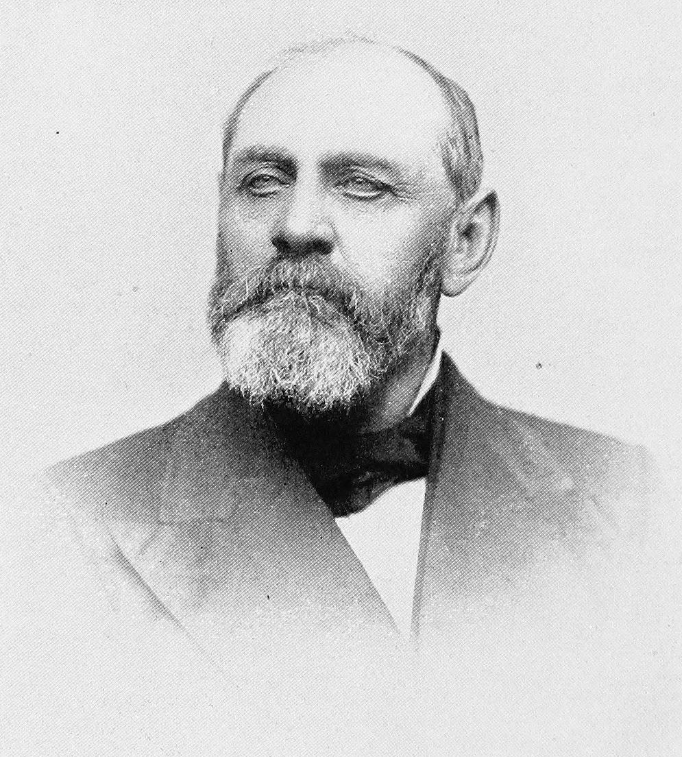 Experience Estabrook (Nebraska Congressman)